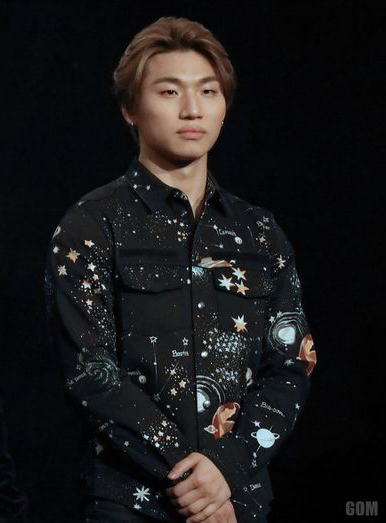 Big Bang members in the premiere of their movie "MADE" in June 28, 2016